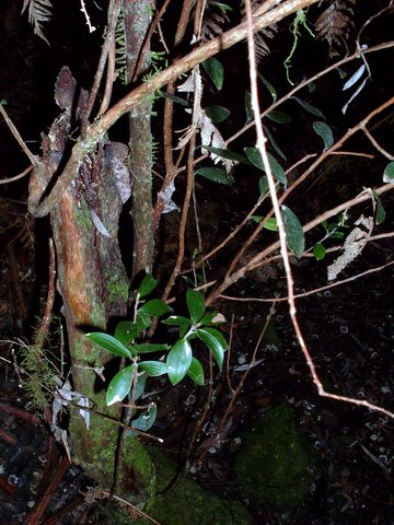 Trochocarpa montana at the head of the Tia River, altitude 1350 metres